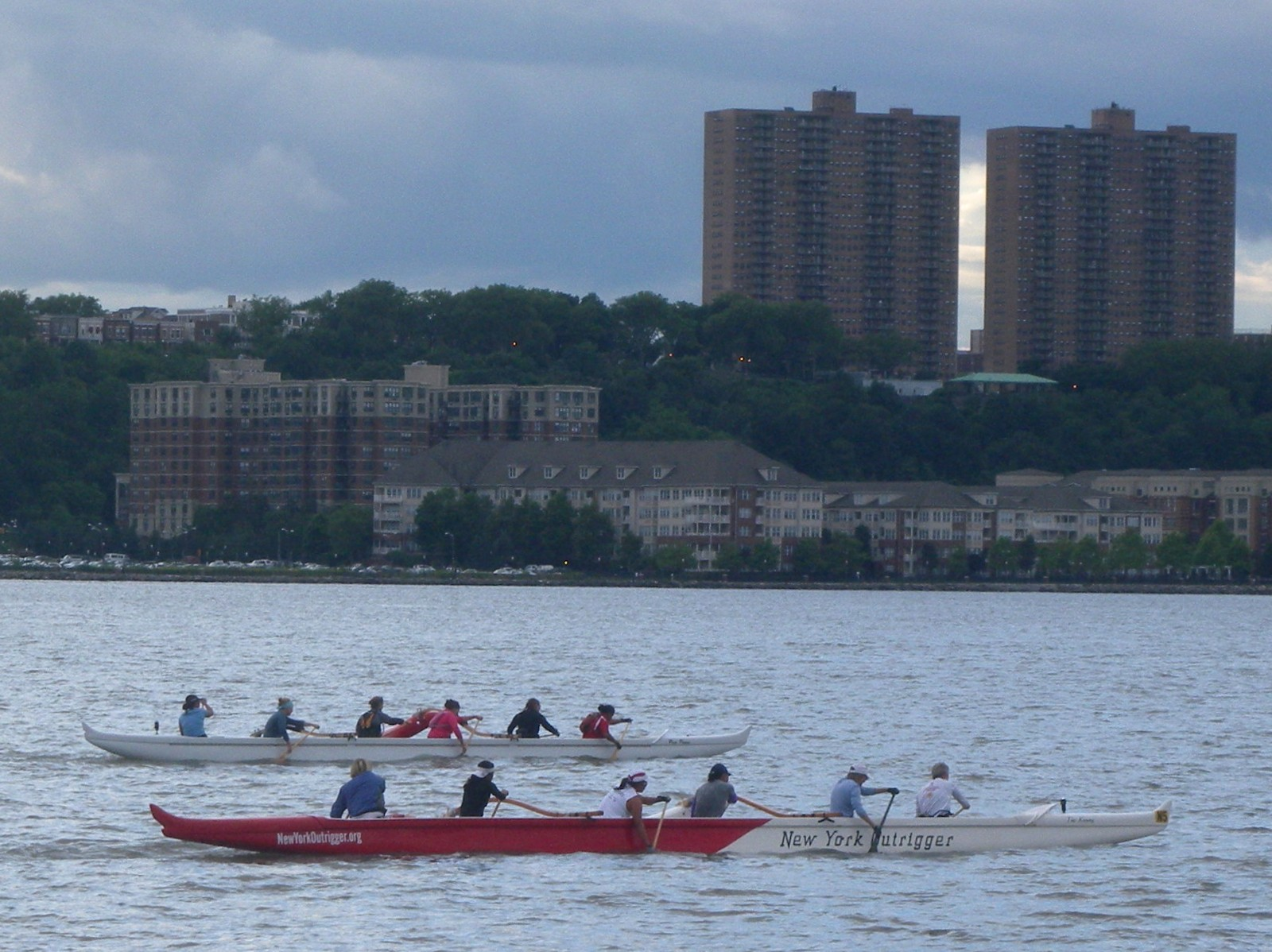 Looking northwest from Pier 86 at paddlers on a cloudy Transit of Venus late afternoon.